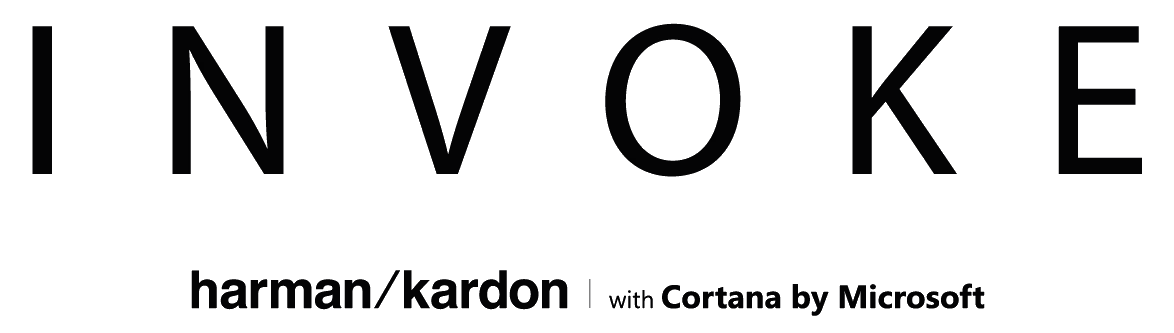 The logo of the Harman Kardon Invoke with Microsoft Cortana, a voice-enabled smart speaker